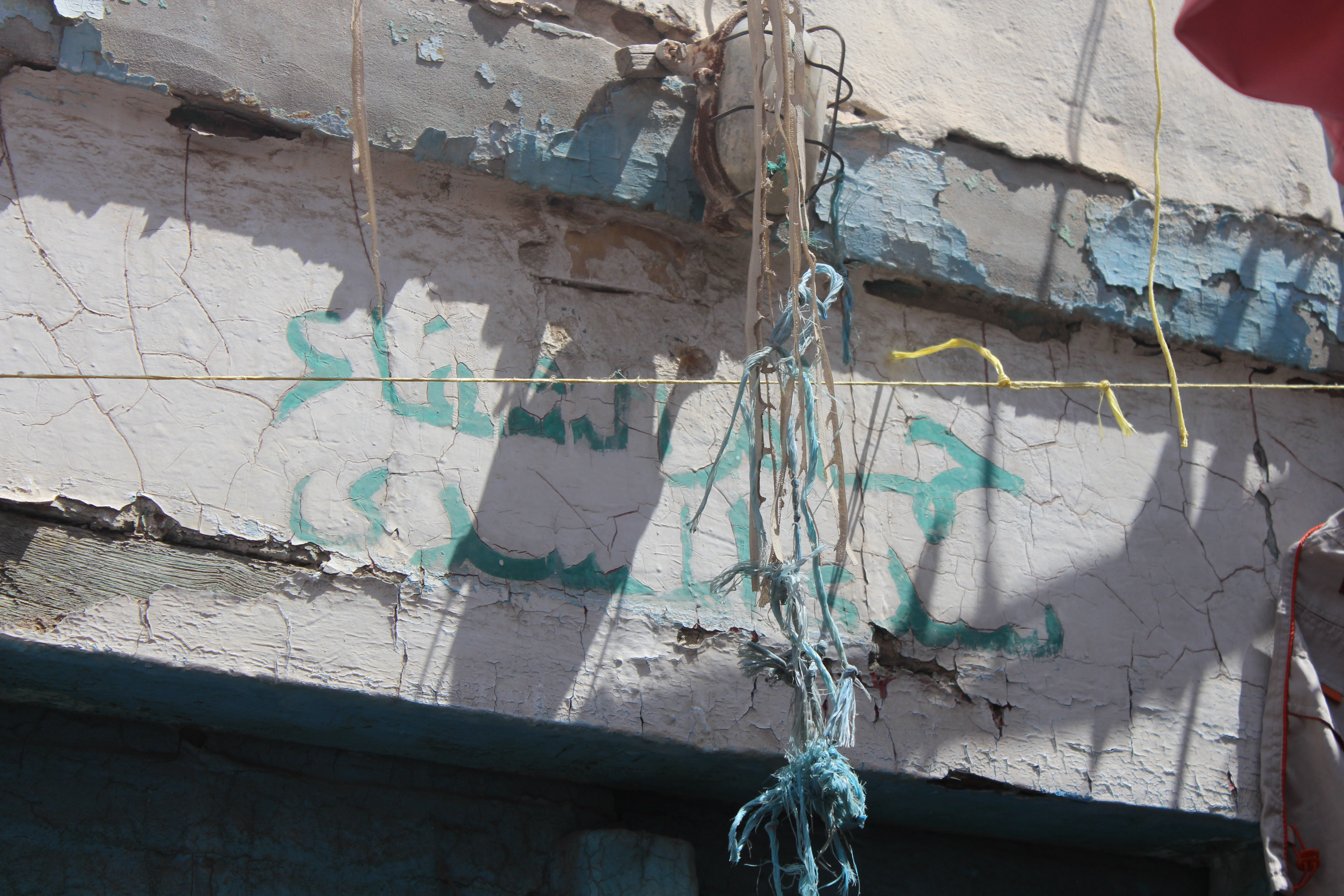 Hammam Mseddi, one of the our Hammams (turkish baths) of the medina of Sfax.